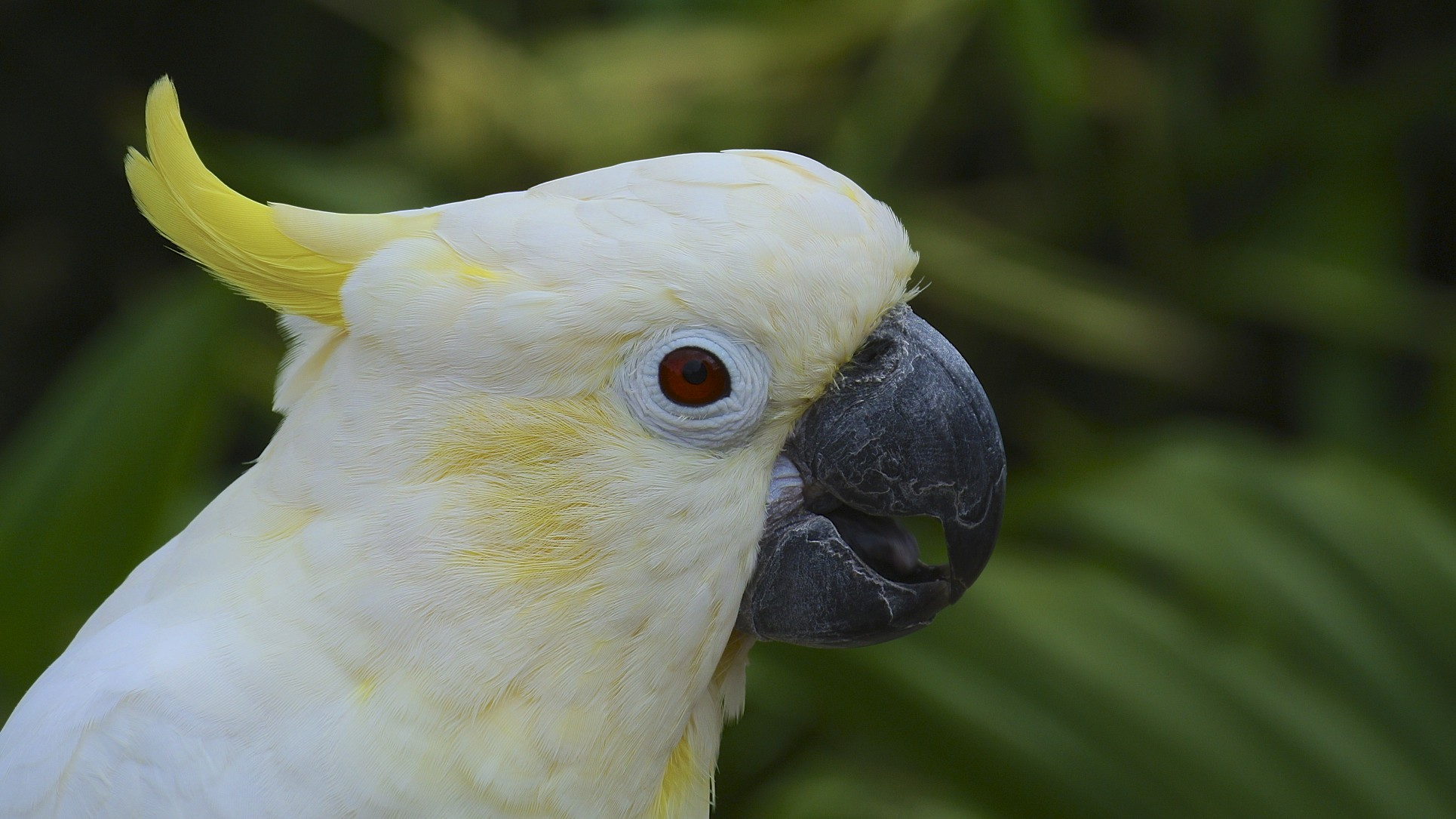 We had a great holiday last week, The Steam Fair, Longleat safari Park and the Bournemouth Air Festival - great weather every day too! Cockatoo Taken with my Nikon V1